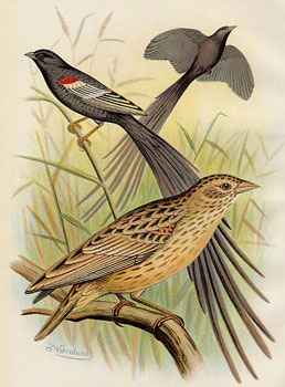 Long-tailed widowbirds showing breeding and non-breeding plumage. (Long-Tailed Whydah, 1899. Chromolithograph after Frederick William Frohawk, printed by Brumby & Clark Ltd. in Hull and published in Frohawk’s Foreign Finches in Captivity, 1899.